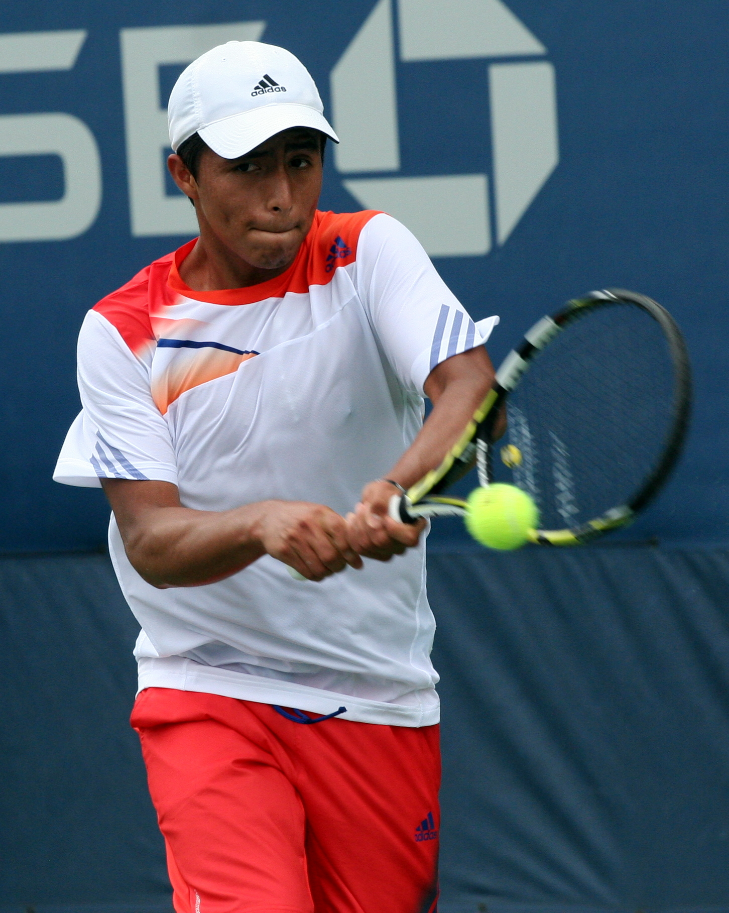 U.S. Open Juniors Tuesday, Sept. 3, 2013